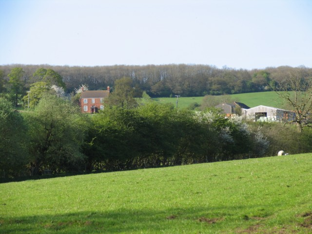 Flitteriss Park Farm. The square boundary passes between the two sets of buildings.